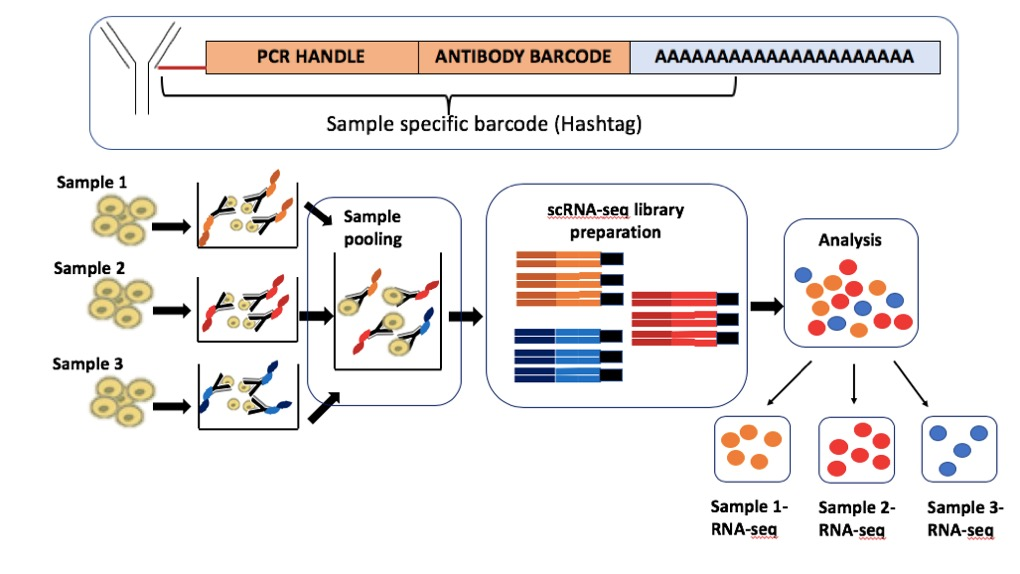 This figure gives a schematic of how cell Hashing works